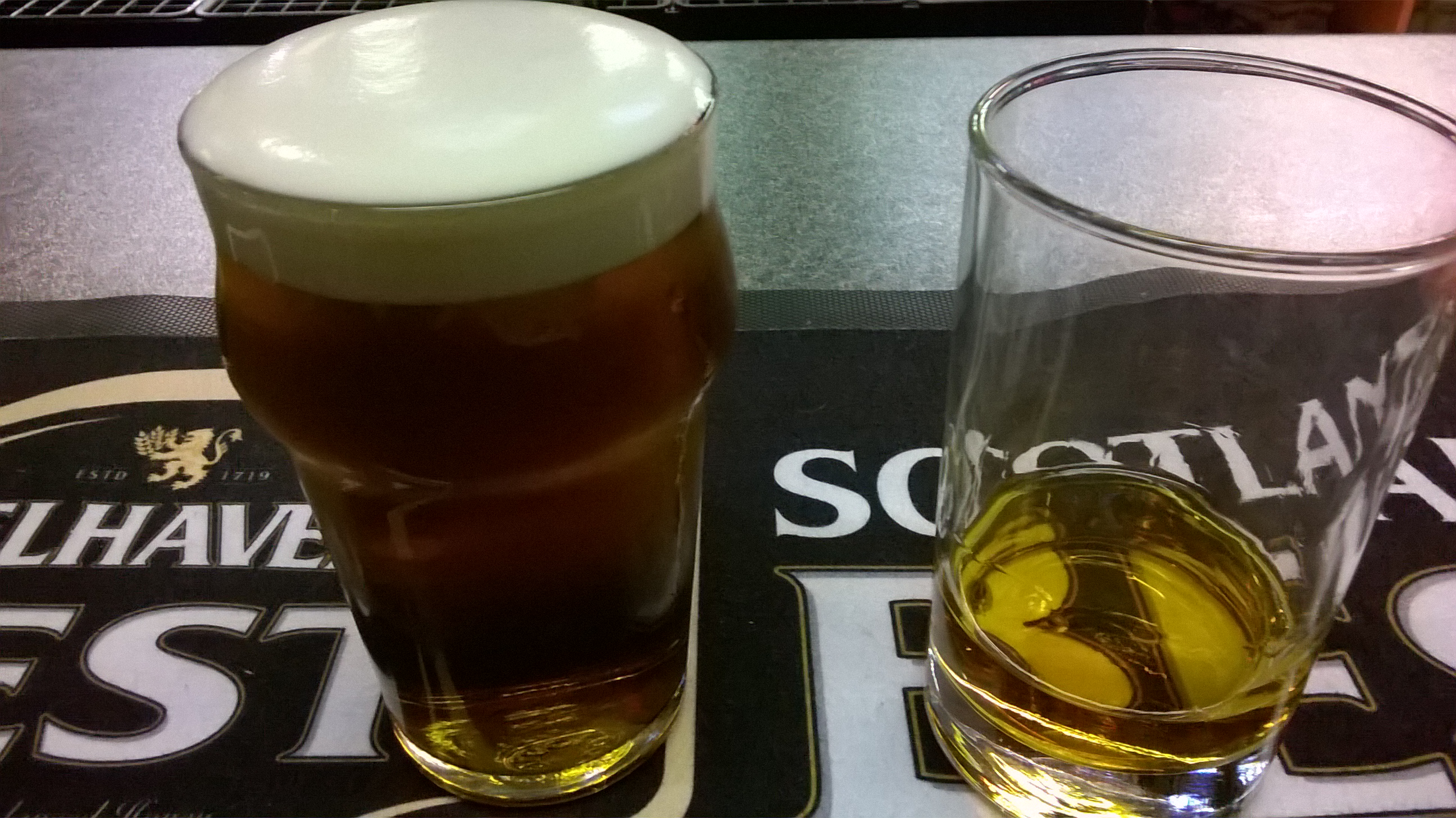 A hauf an a hauf: half a pint of beer and a "wee hauf", or quarter, gill of whisky. Warout Stadium bar, Glenrothes.